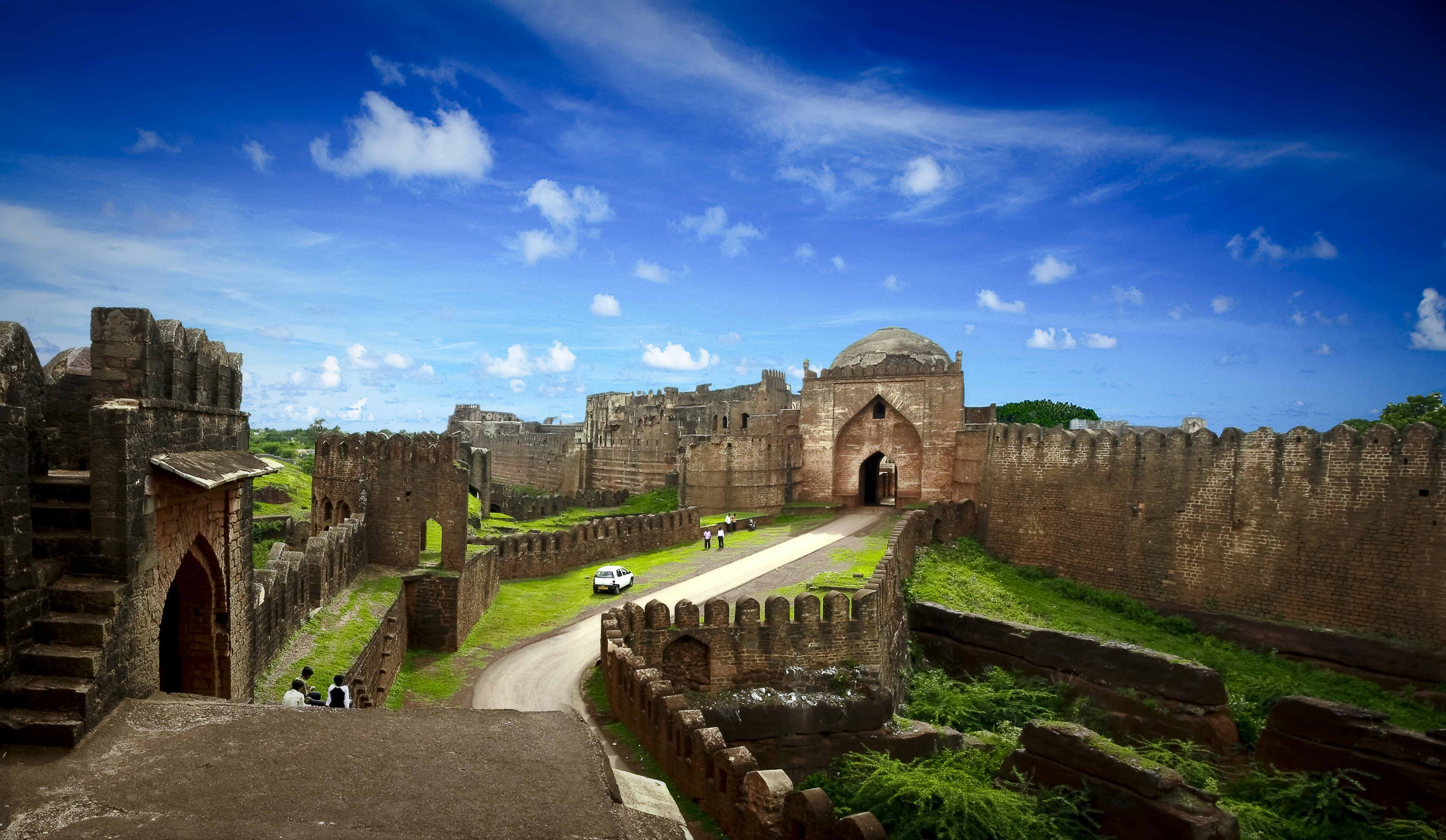 BIADR FORT (outside view )